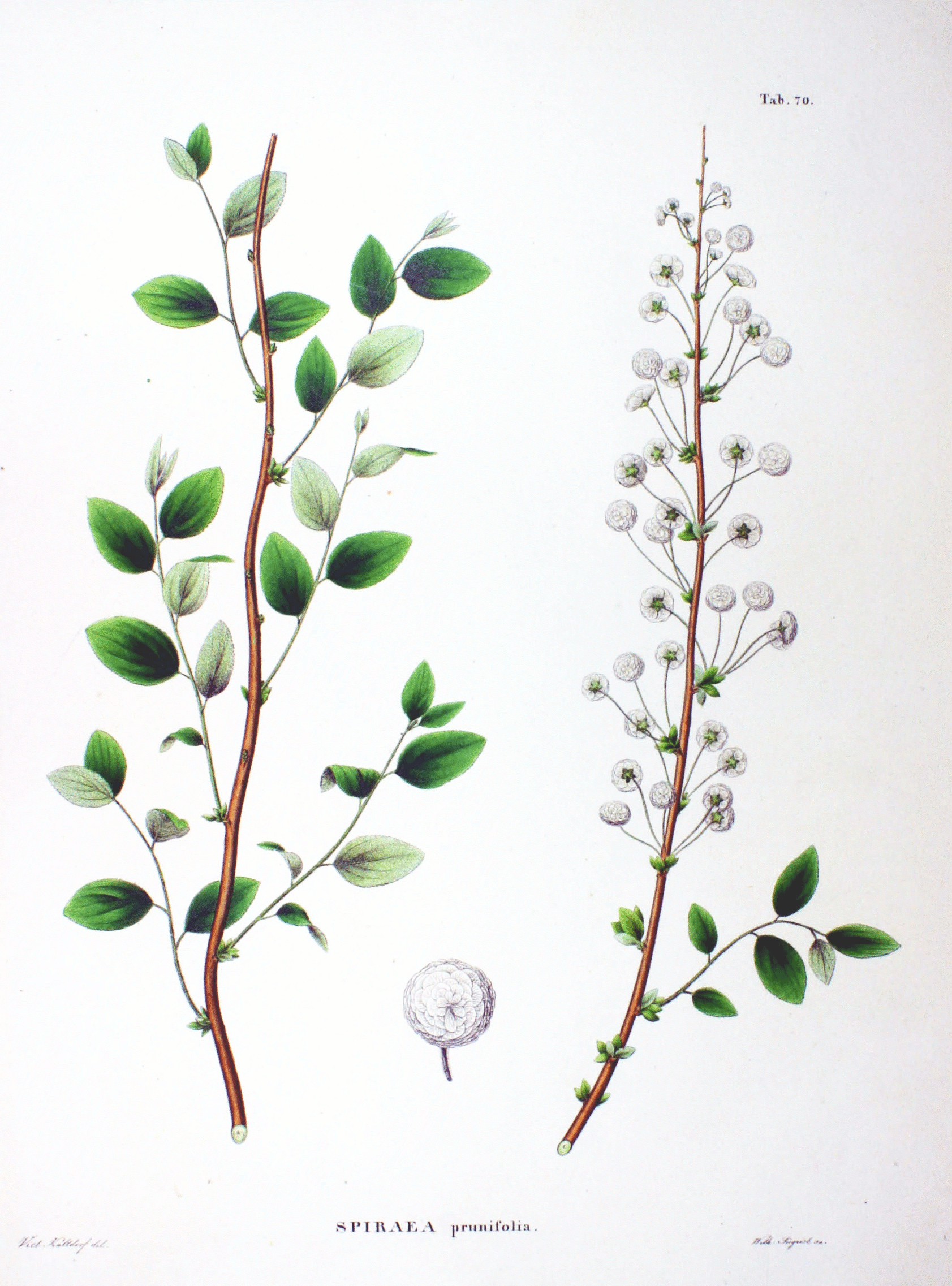 Plate from book